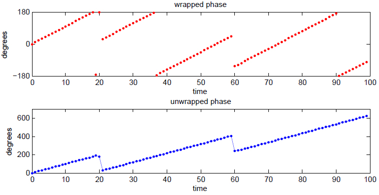 Illustration of instantaneous phase vs time in two display formats, wrapped and unwrapped. The function has two true discontinuities of 180°. The 360° "discontinuities" at times 37 and 91 are artifacts of phase wrapping.